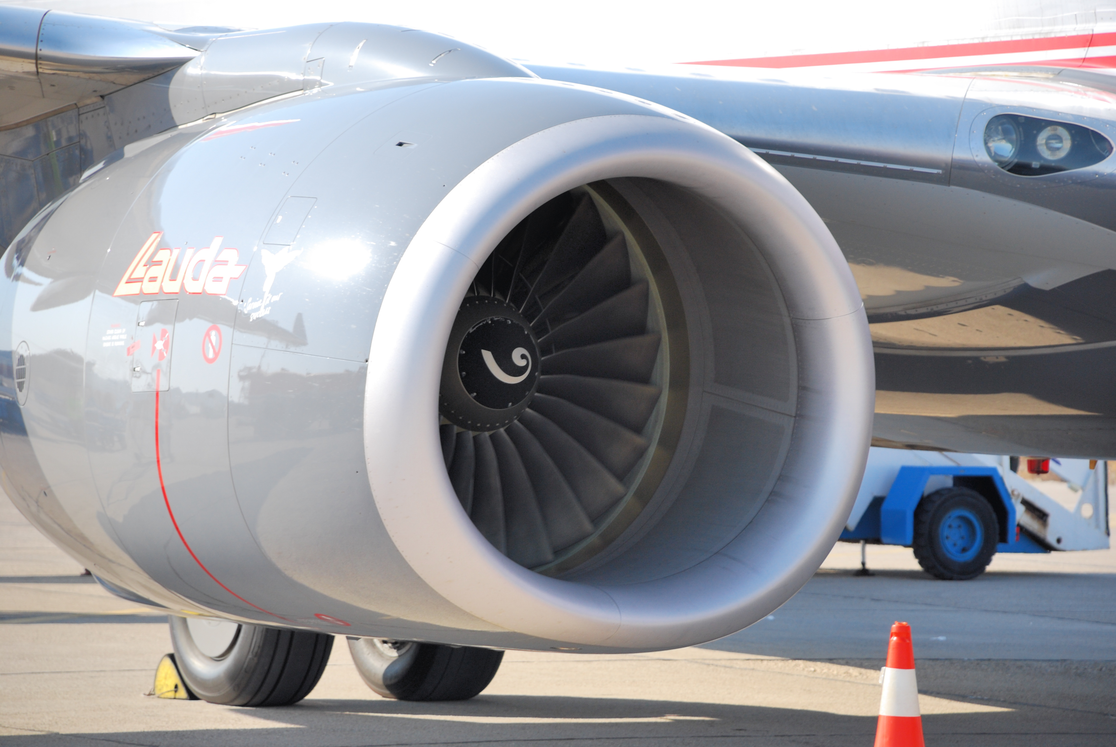 CFM International CFM56-7B engine of Lauda Air Boeing 737-800 OE-LNT